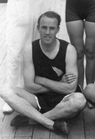 Harry Wilson (hurdler)